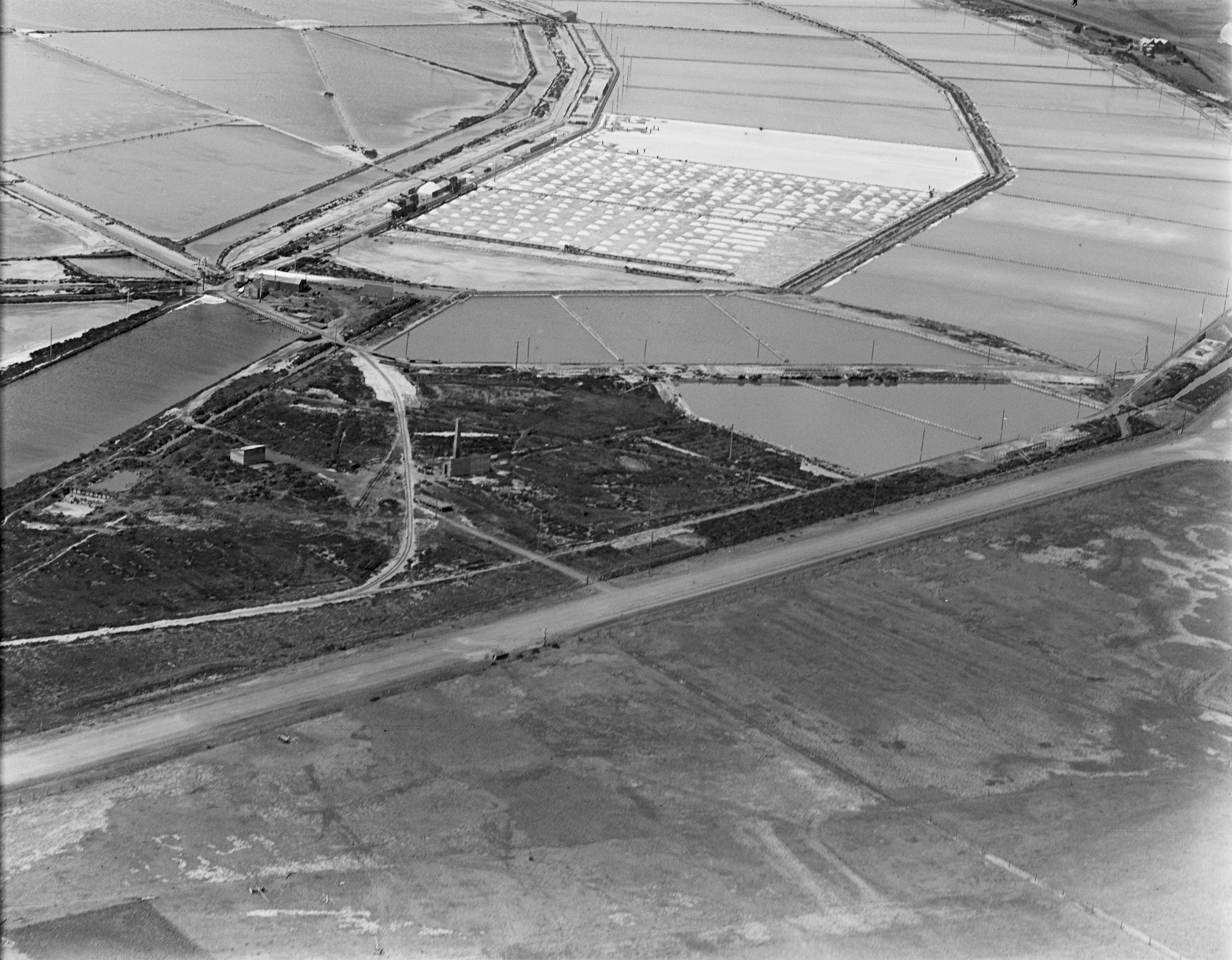 Cheetham salt pans at Moolap and Point Henry with salt being harvested.